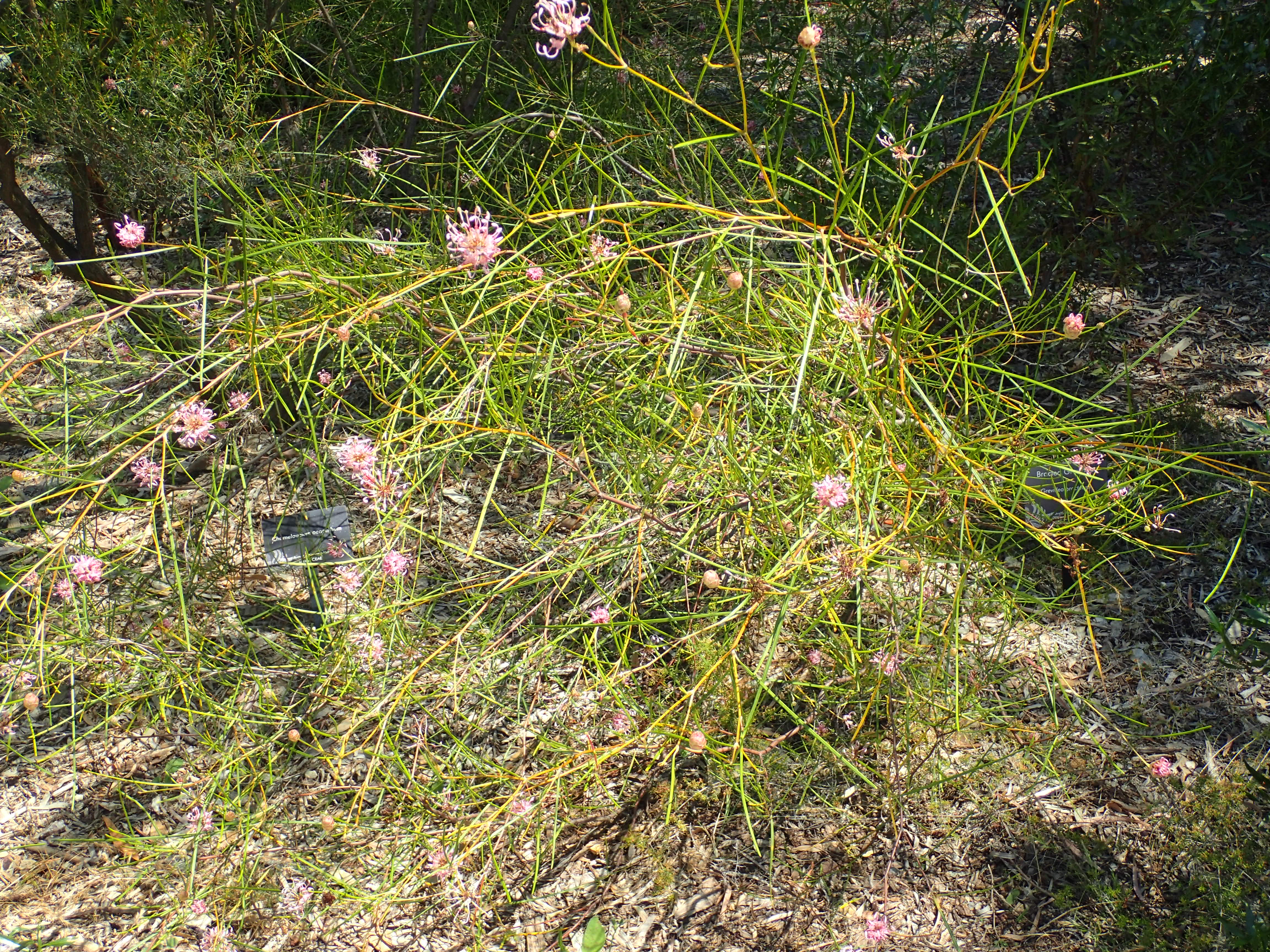 Grevillea bracteosa in Kings Park Botanic Garden